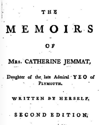 book cover Memoirs by Mrs Catherine Jemmat